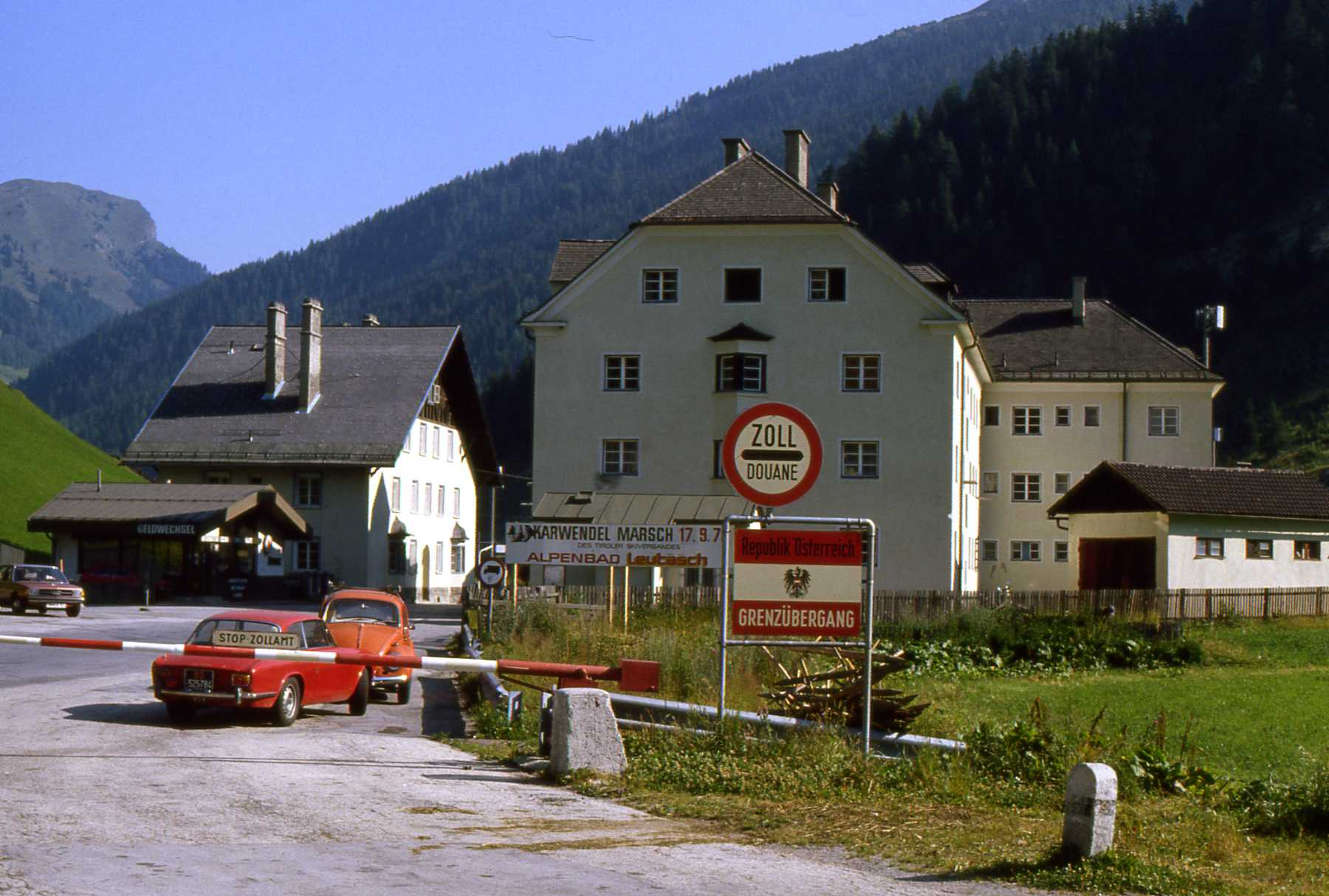 Italy, South Tyrol, Brenner Pass. The old Austrian bar border in 1978.